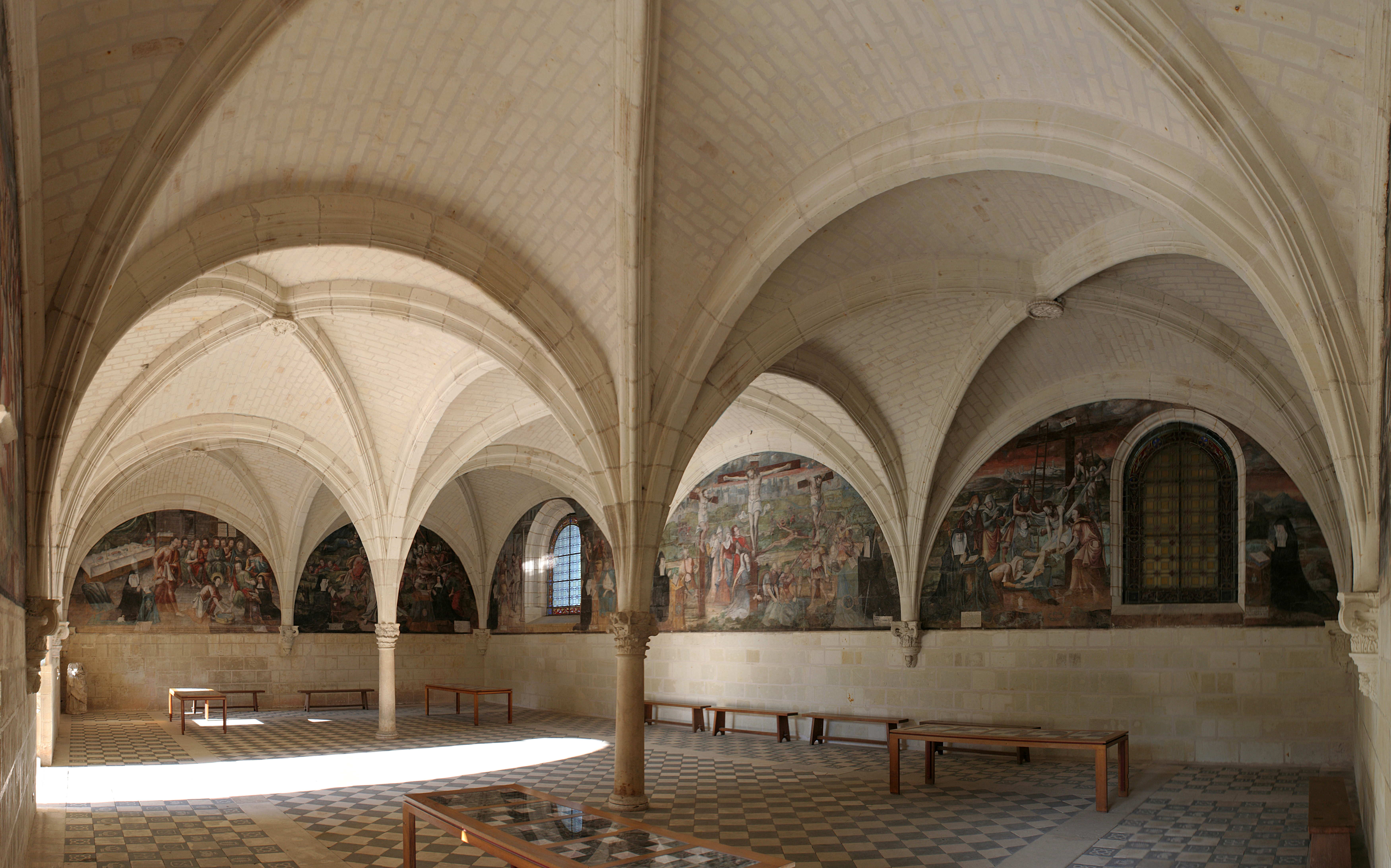 General wiew of the chapterhouse of Fontevraud abbey.